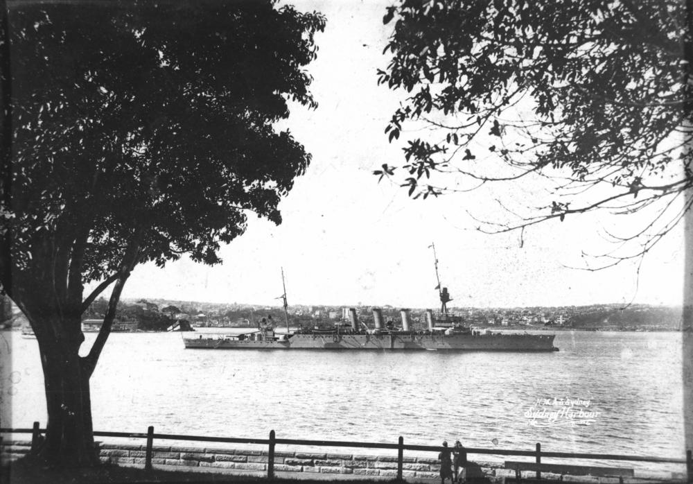 Sydney (ship). H.M.A.S. Sydney.